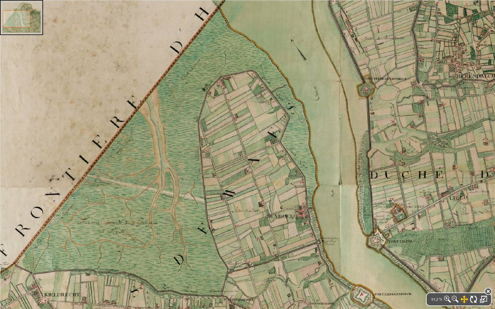 Doel,_Lillo,_Schelde,_Ferraris,_1775.png